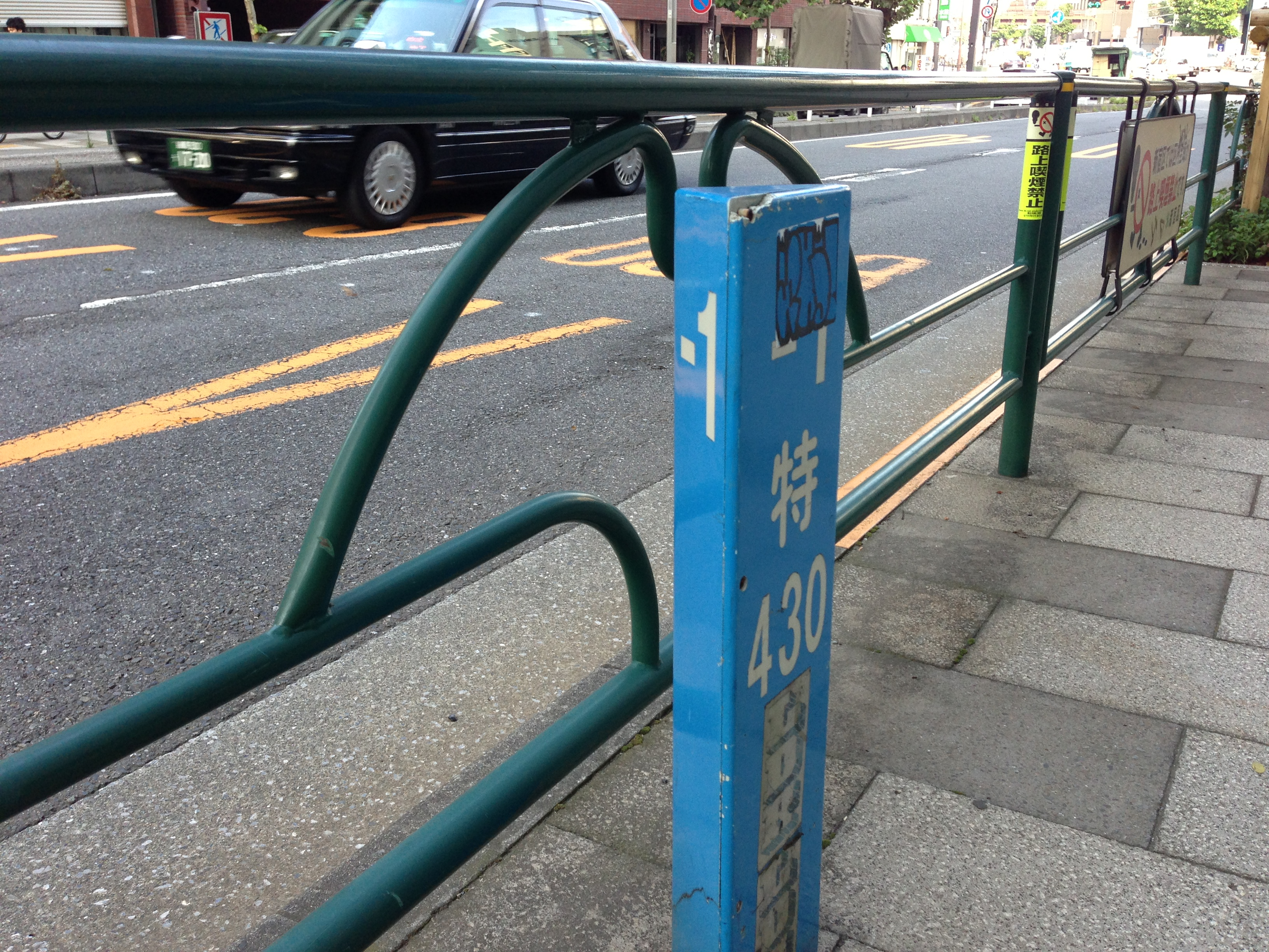 1 Kilopost of Tokyo Metropolitan Road Route 430 in Yotsuya.